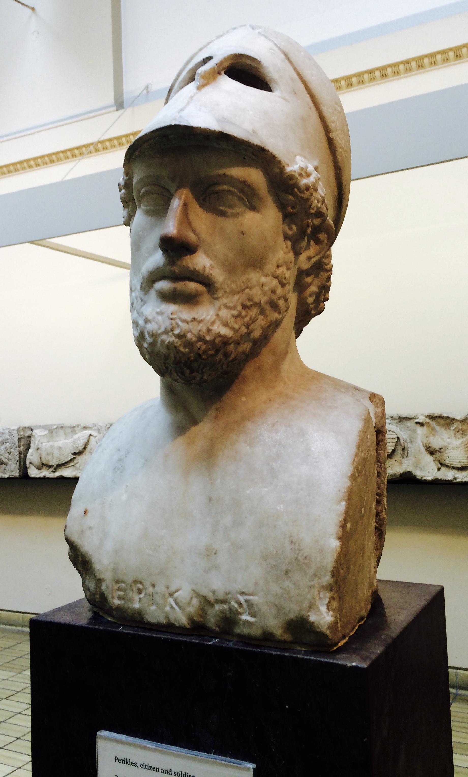 2nd Century AD Roman copy of a lost Greek Original From the British Royal Museum Collection.